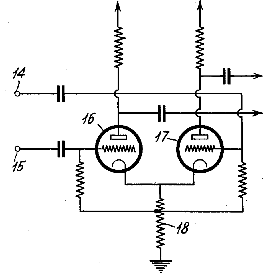 Long-tailed pair with cathode auto-biasing. Figure 3 from A. D. Blumlein's US Patent 2185367 (British 482740), priority from 1936-07-04. The original was slightly altered - I removed output cathode followers, which are not part of the LTP per se, and moved one of the interstage caps into the cropped area.